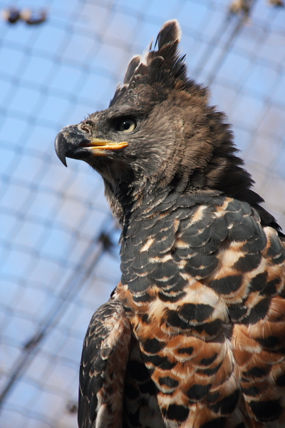 African Crowned Eagle (Stephanoaetus coronatus) in Zoo Szeged